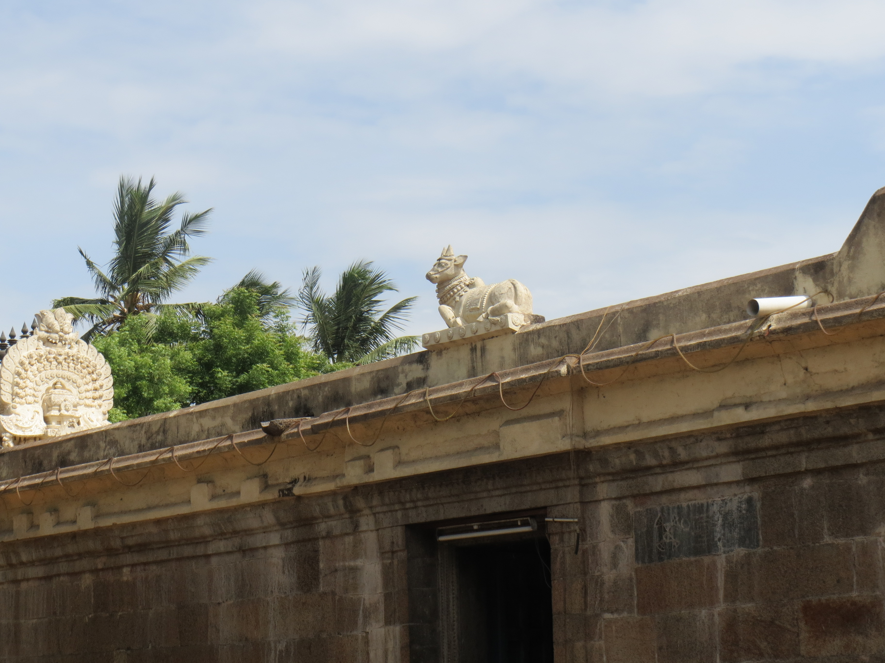 Nandhi statue at Thenupureeswarar koil at Madambakkam near Tambaram. Tamil:மாடம்பாக்கம் தேனுபுரீசுவரர் கோயிற் சுவர் மீதமைந்துள்ள நந்தி சிலை.